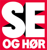 This picture represents the official Se og Hør logo constructed by the Aller company.